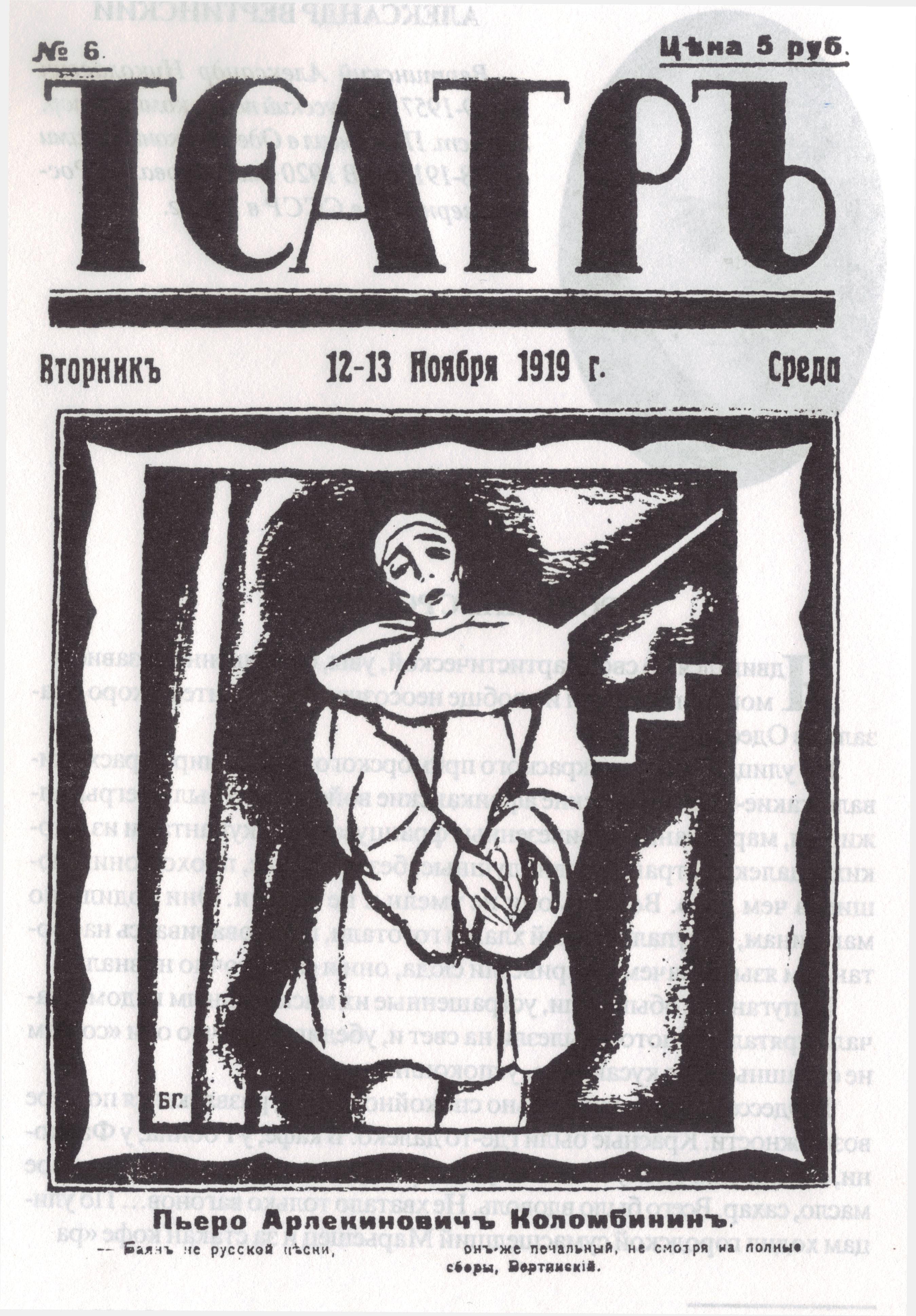 Front cover of Russian revue Teatr, the issue from 12-13 November 1919. Cover drawing portraits Alexander Nikolayevich Vertinsky as Pierrot.